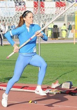 The Italian pole vaulter Elena Scarpellini training in Bergamo in 2010